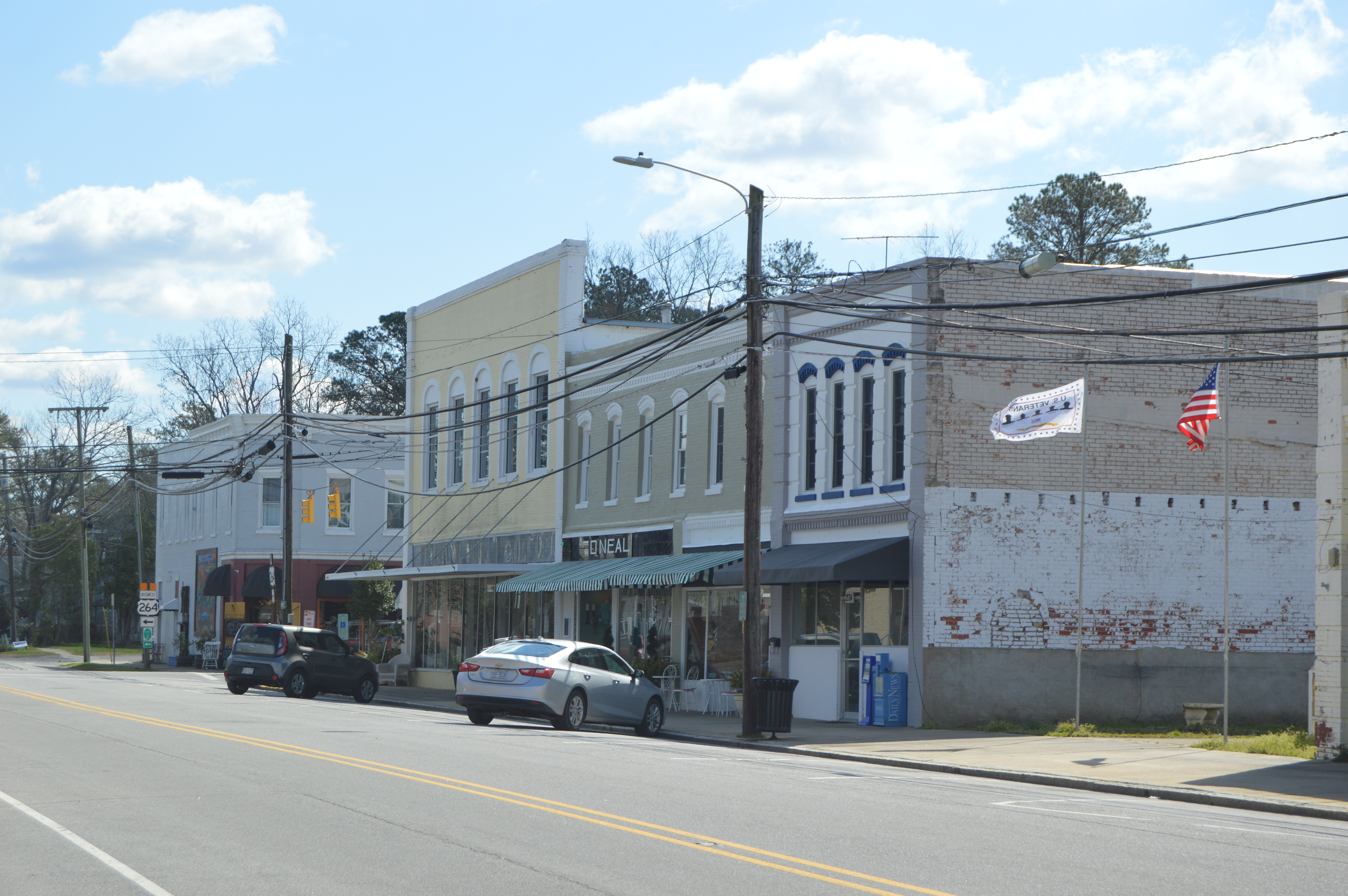 Buildings on the southwestern side of Main Street at the Pamlico Street intersection in Belhaven, North Carolina, United States. From closest to farthest, they are 274, 276-278, and 292 Main Street, and 288 Pamlico Street. All built in 1910, they are part of the Belhaven Commercial Historic District, a historic district that is listed on the National Register of Historic Places.